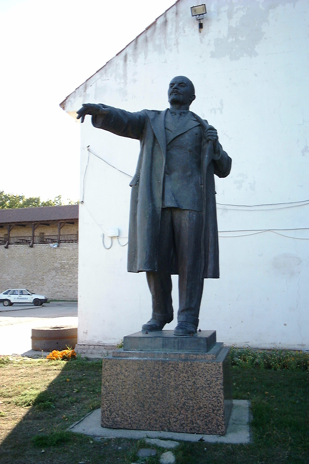 Relegated to the corner of the park at Narva castle